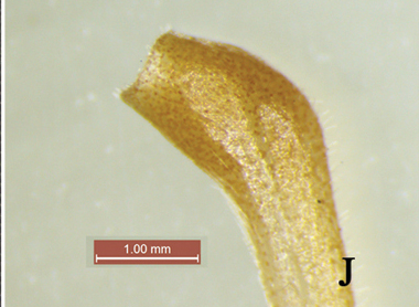 Amomum nilgiricum, stigma